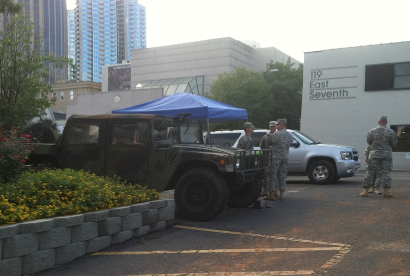 Military Patrol at DNC in Charlotte